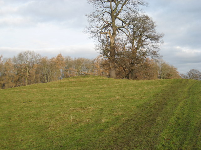 Source description says: "Betty Watson's Hill near Piercebridge. Much of the land in this locality is quite flat. One exception to this is Betty Watson's Hill (shown here) which lies just to the east of Cliffe Hall. This photograph was taken from the public footpath (which runs over the hill) looking in a northerly direction towards Piercebridge. The River Tees lies just beyond the trees that can be seen in the background of the picture." This site is in the area of Cliffe, Richmondshire.